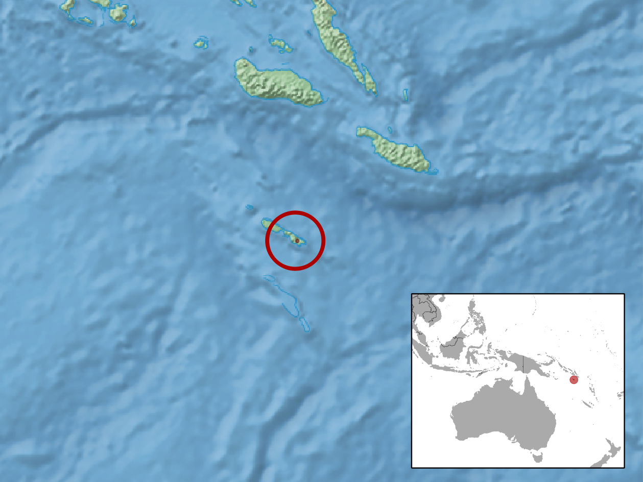 geographic distribution of Laticauda crockeri